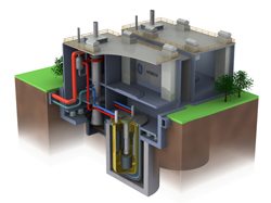 General Electric-Hitachi Power Reactor Innovative Small Module (PRISM)